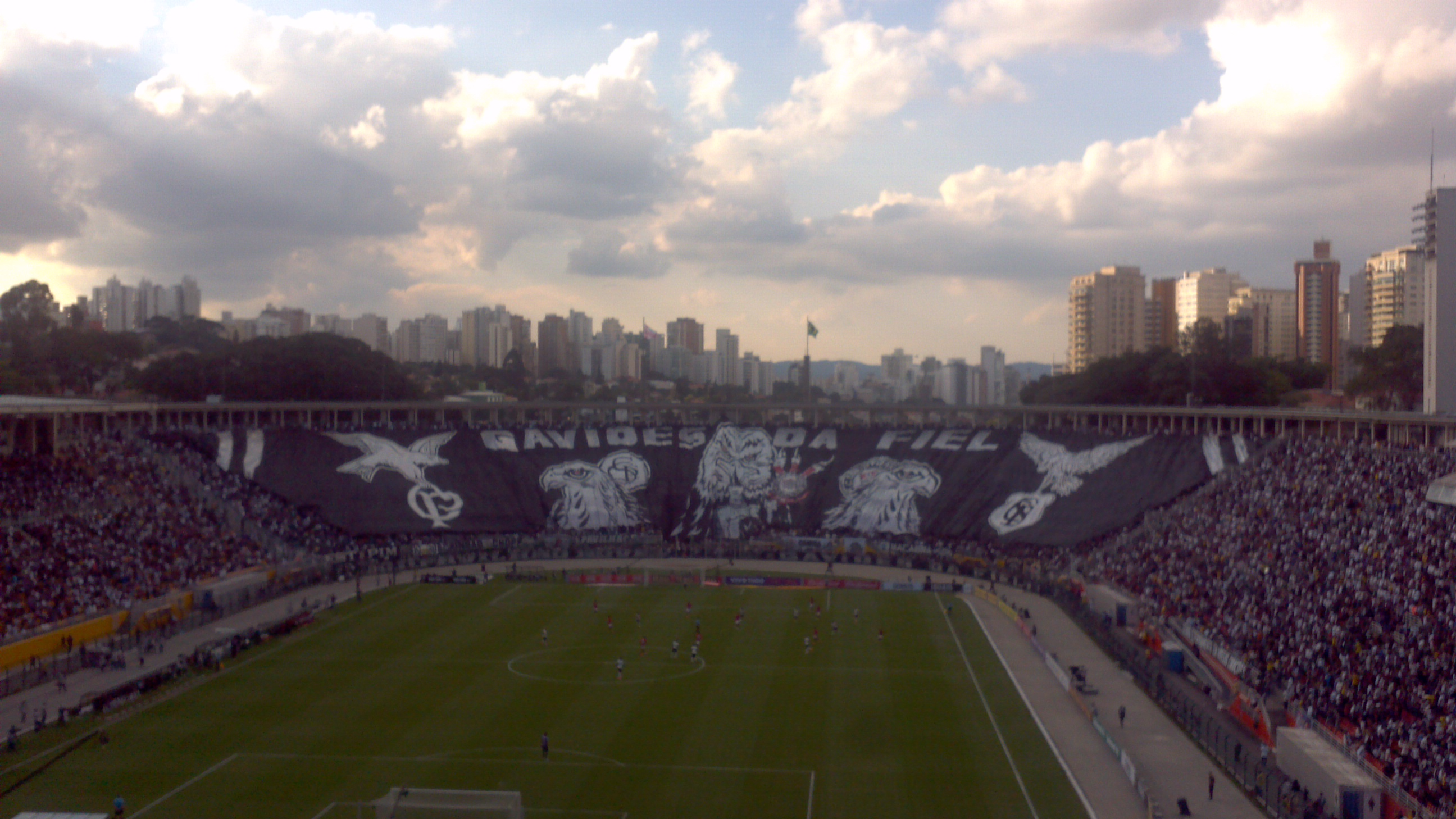 Corinthians fans, the last official match at Pacaembu against Flamengo for the Brazilian Soccer Championship 2014.